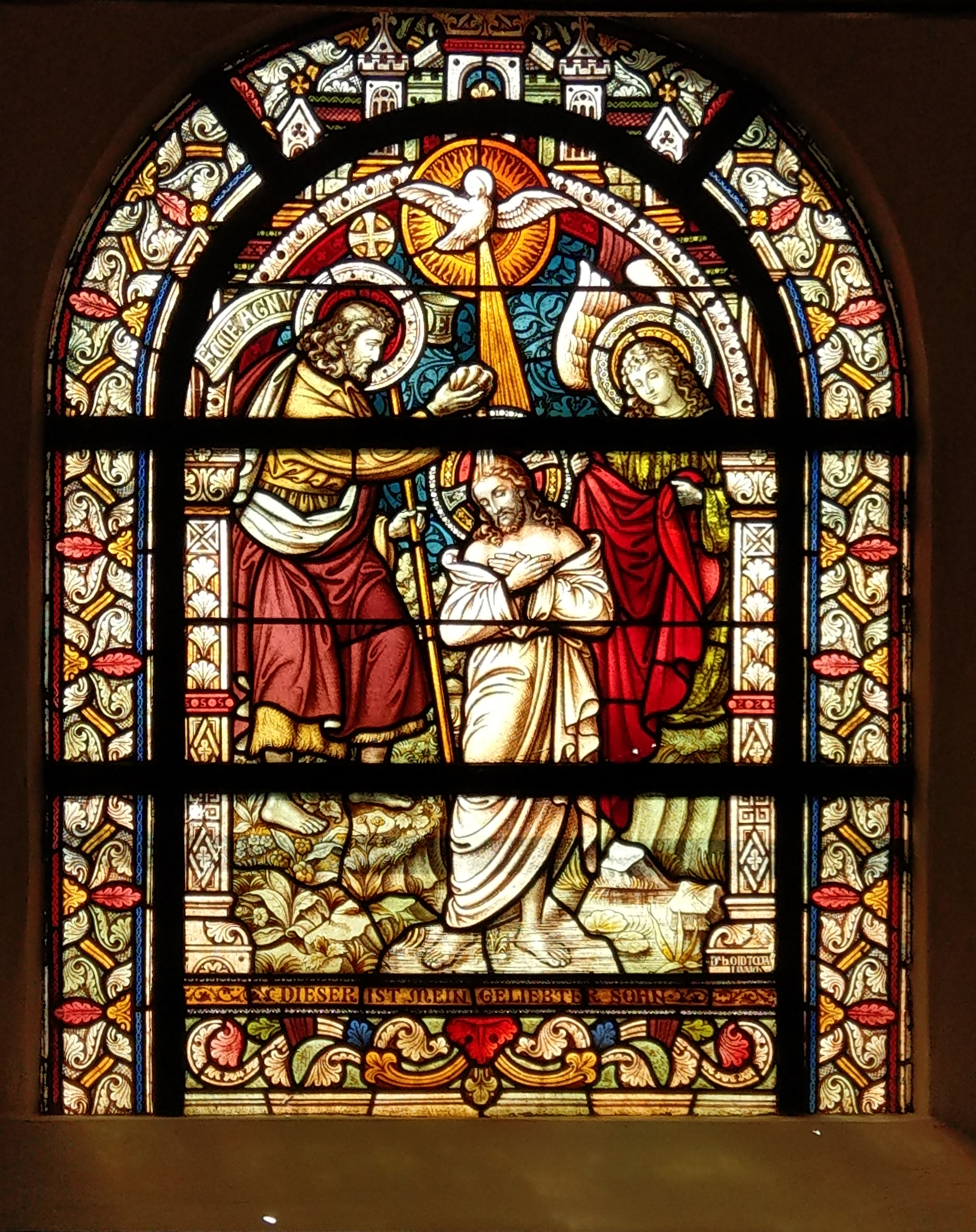 History and date, see category.